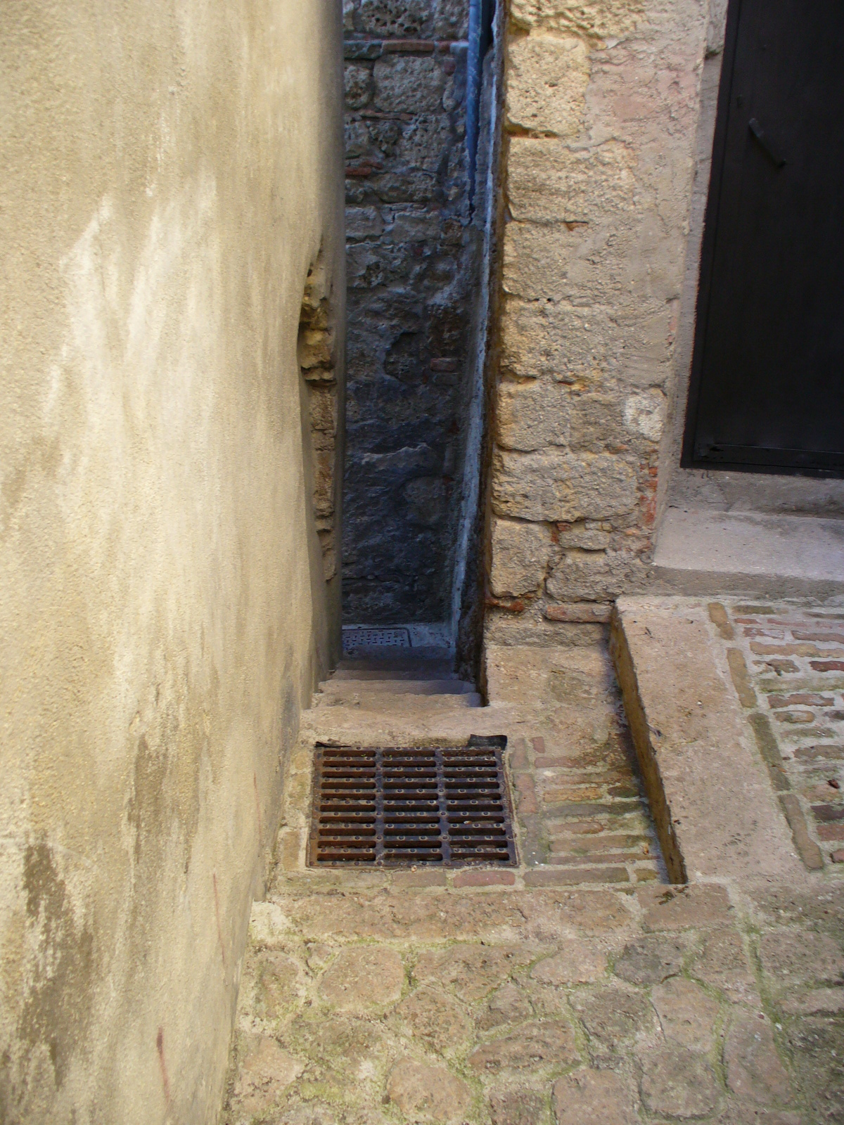 The "ruetta" in Civitella del Tronto, the narrowest street in Italy.